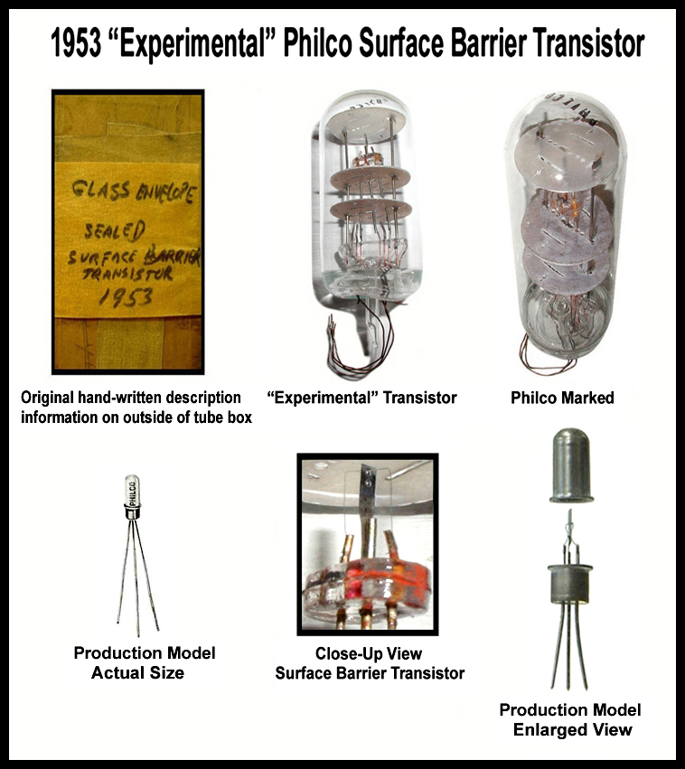 This is a rare Philco "experimental" surface barrier transistor that is encapsulated in a sealed vacuum tube and was developed in early 1953. This item is in my private archive collection, that I had acquired from a former Philco engineer employee that worked at the Lansdale Tube company - Philco division. Philco had made its production models of the surface barrier transistor in late 1953, which were hermetically sealed in a small aluminum can.